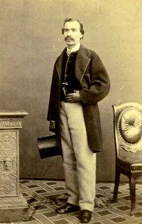 Portrait of Italian opera singer Carlo Negrini